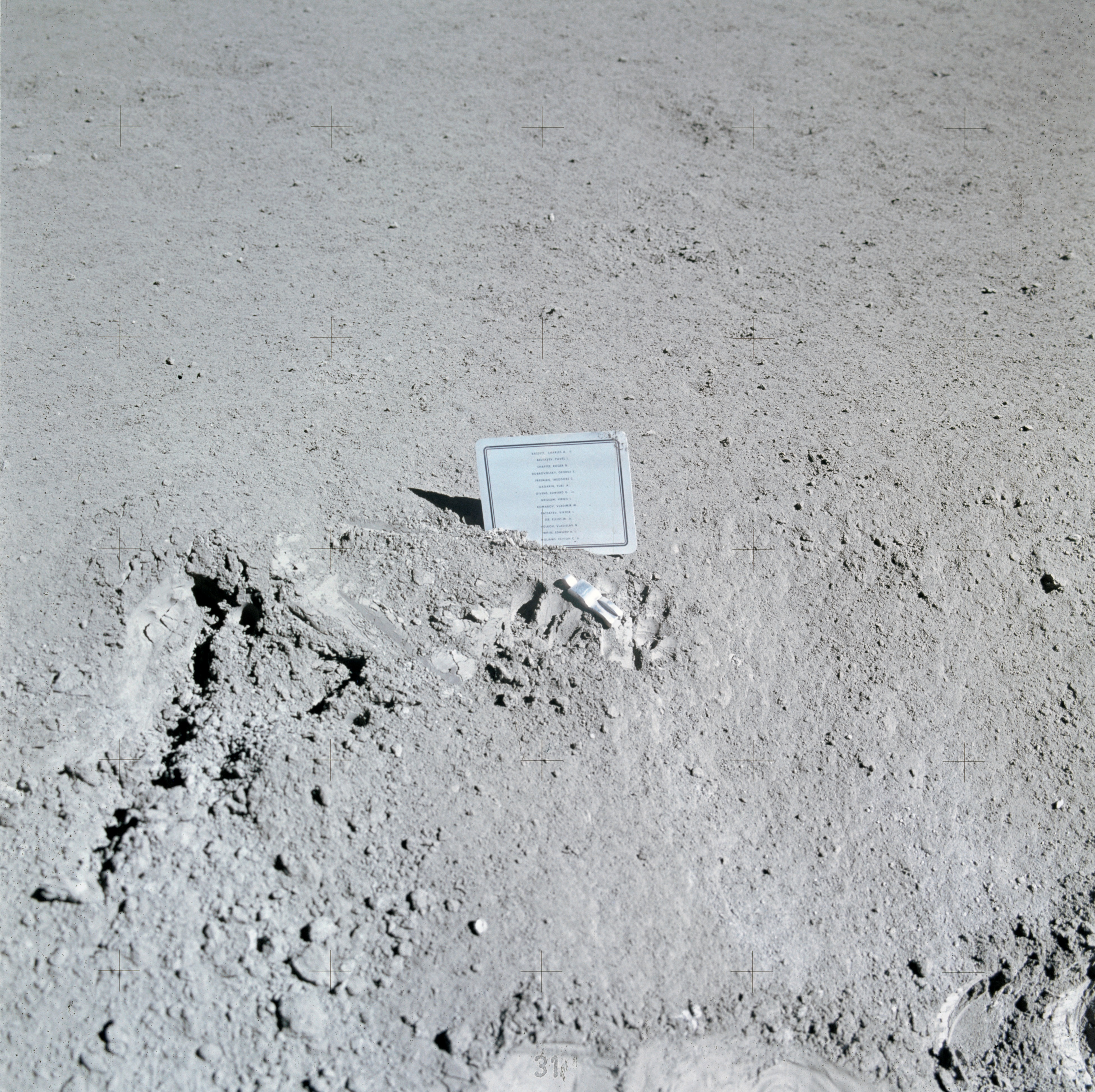 A close-up view of a commemorative plaque left on the moon at the Hadley-Apennine landing site in memory of 14 NASA astronauts and USSR cosmonauts, now deceased. Their names are inscribed in alphabetical order on the plaque. The plaque was stuck in the lunar soil by astronauts David R. Scott, commander, and James B. Irwin, lunar module pilot, during their Apollo 15 lunar surface extravehicular activity (EVA). The tiny, man-like object represents the figure of a fallen astronaut/cosmonaut. The names on the plaque are Charles A. Bassett II, Pavel I. Belyayev, Roger B. Chaffee, Georgi Dobrovolsky, Theodore C. Freeman, Yuri A. Gagarin, Edward G. Givens Jr., Virgil I. Grissom, Vladimir Komarov, Viktor Patsayev, Elliot M. See Jr., Vladislav Volkov, Edward H. White II, and Clifton C. Williams Jr.